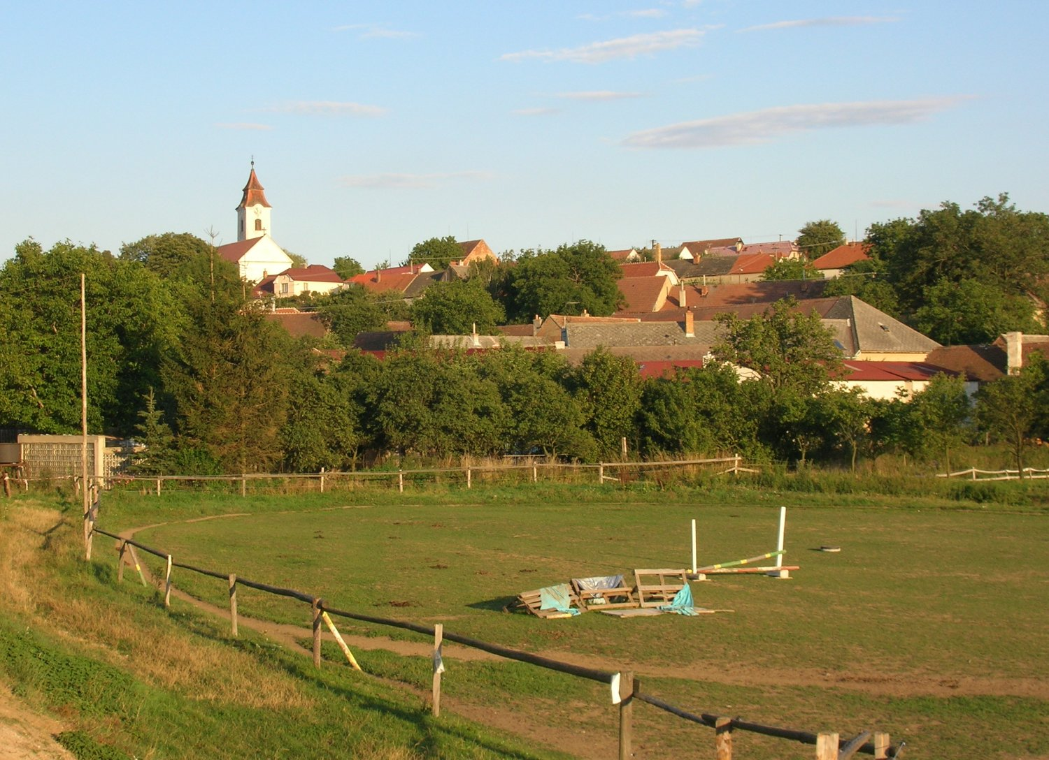 Horní Újezd. View from the railroad crossing